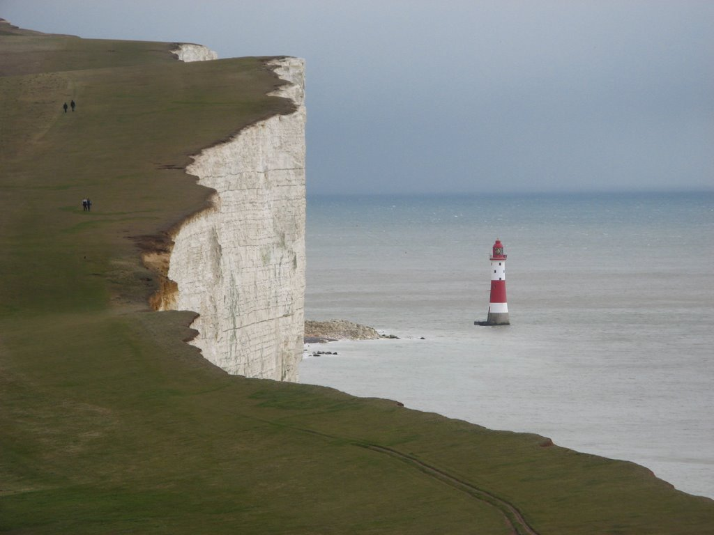 Beachy_Head,_Sussex,_UK